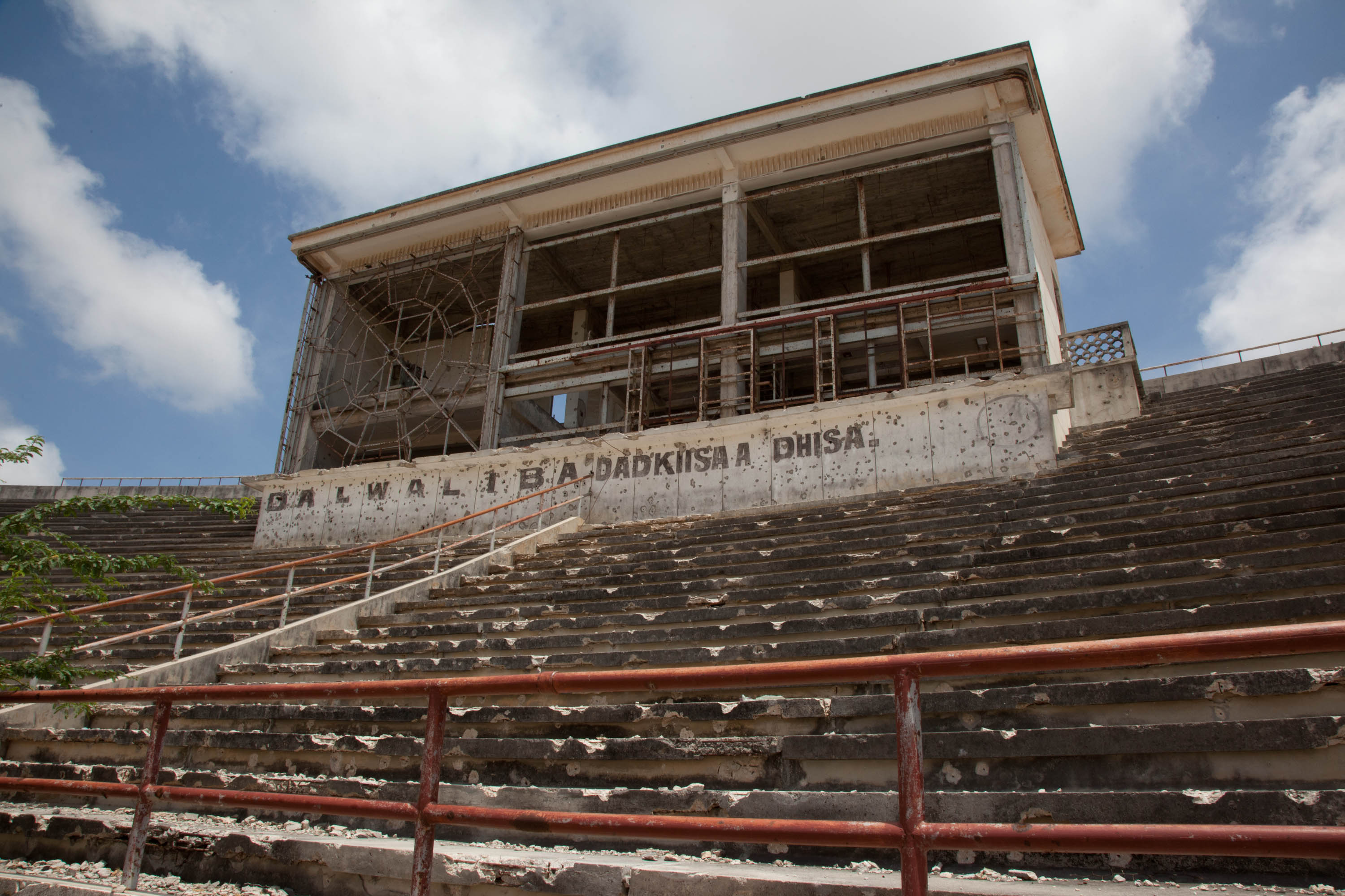 08/09/11- Mogadishu, Somalia - Mogadishu stadium, the former al-Shabaab headquarters. Al-Shabaab withdrew from Mogadishu on the 6th August 2011. Press Handout - AU/UN IST/ANTHONY HUNT